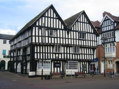 The Round House